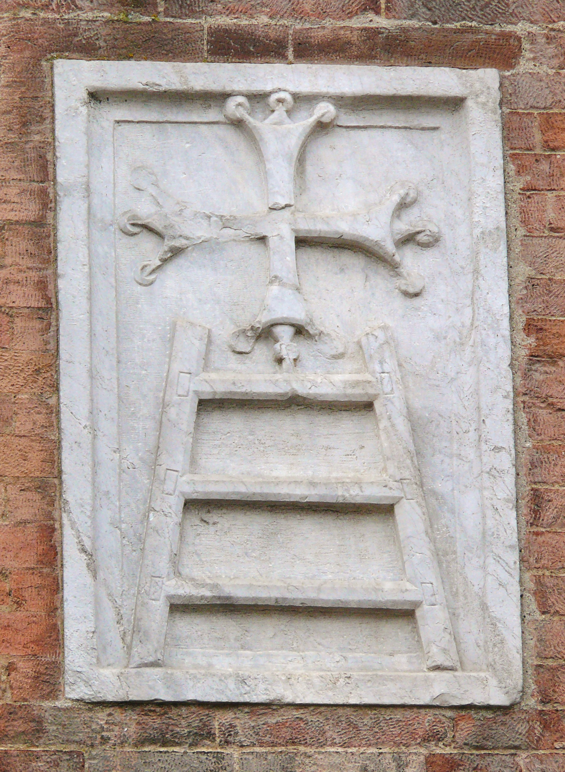 emblem of medieval Hospital Santa Maria della Scala of Siena, italy